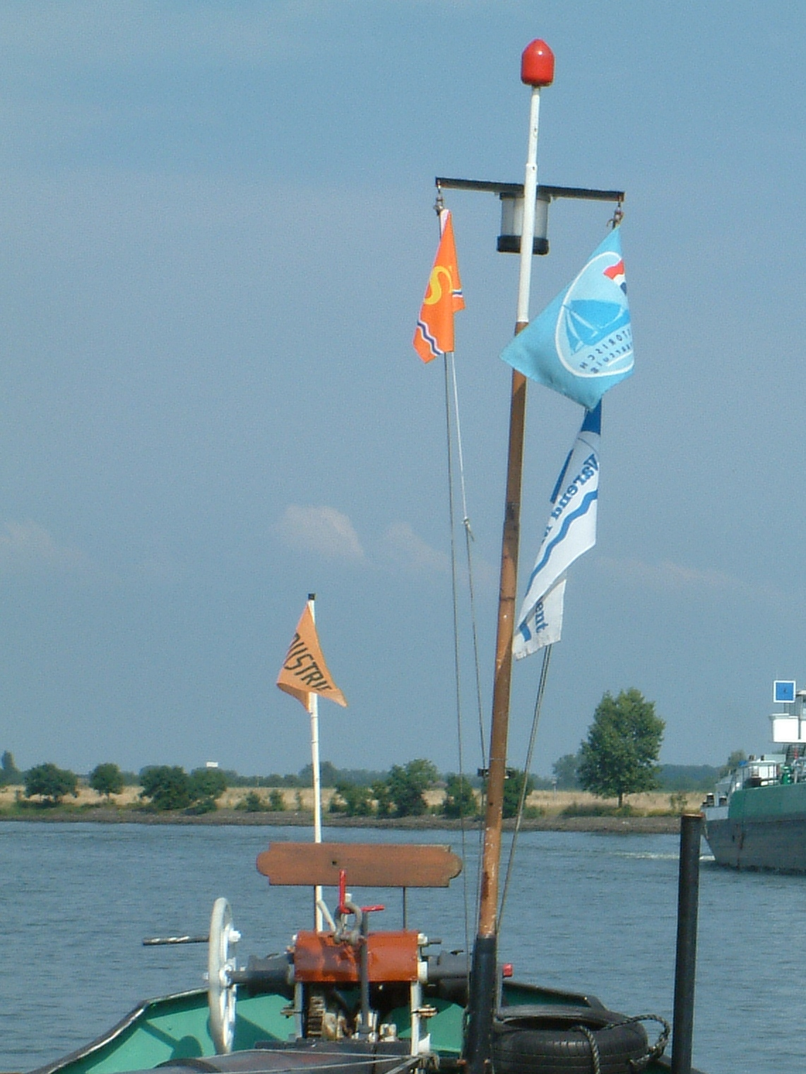 Truck